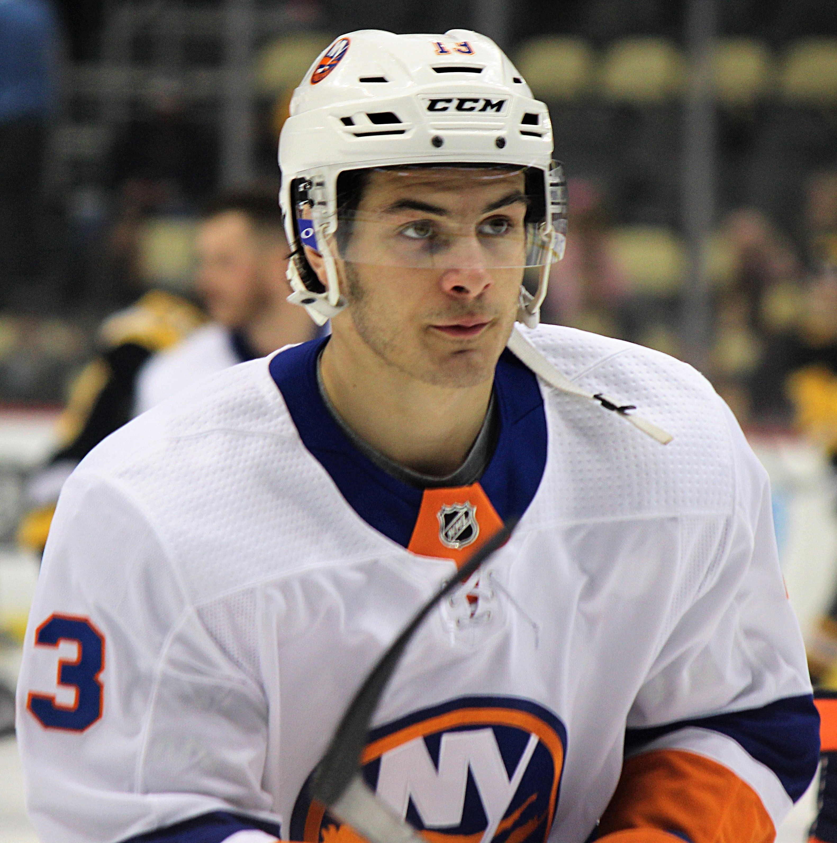 New Yorks Islanders forward Matthew Barzal during a game against the Pittsburgh Penguins at PPG Paints Arena in Pittsburgh, PA. Saturday, March 3, 2018.